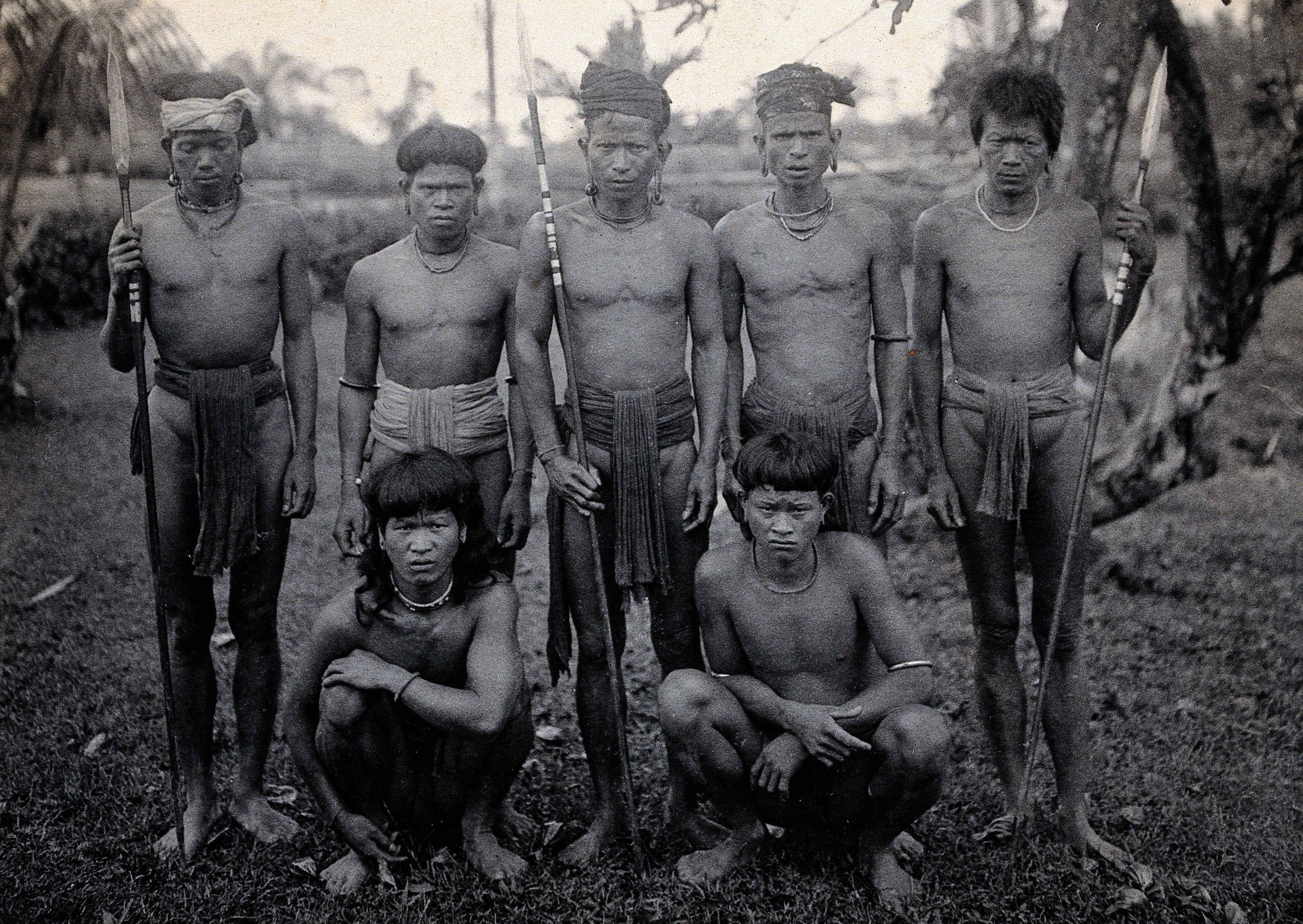 Sarawak: a group of native Kalabit men. Photograph. Iconographic Collections Keywords: Tribe; Population Groups; Borneo; Tribal; Charles Hose; Anthropology; Malaysia; Ethnography